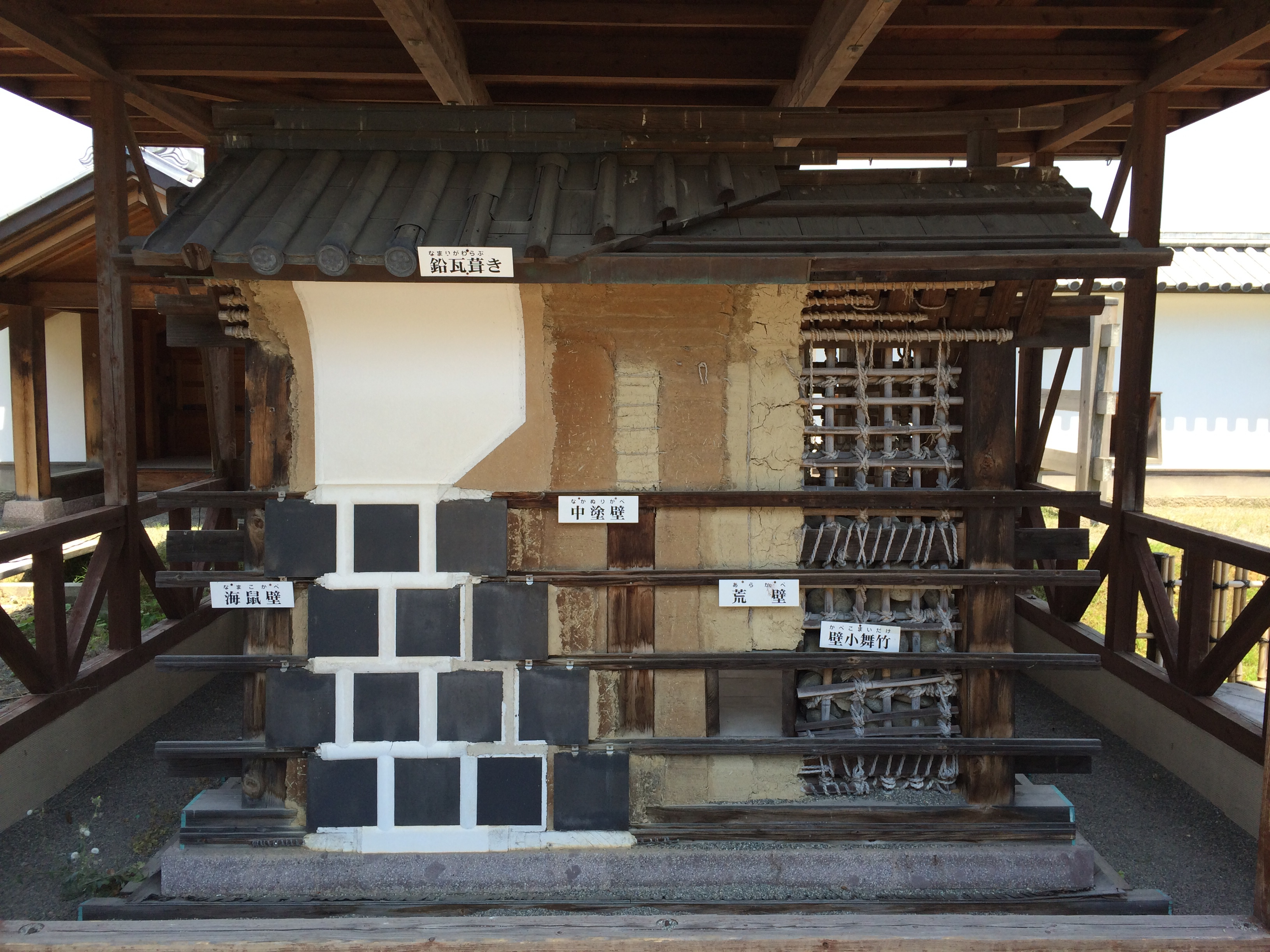 How the castle gates are built up